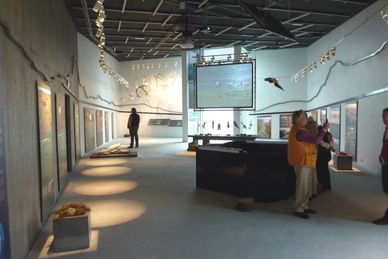 Snæfellsstofa is Vatnajökull National Park's visitor centre in east Iceland.